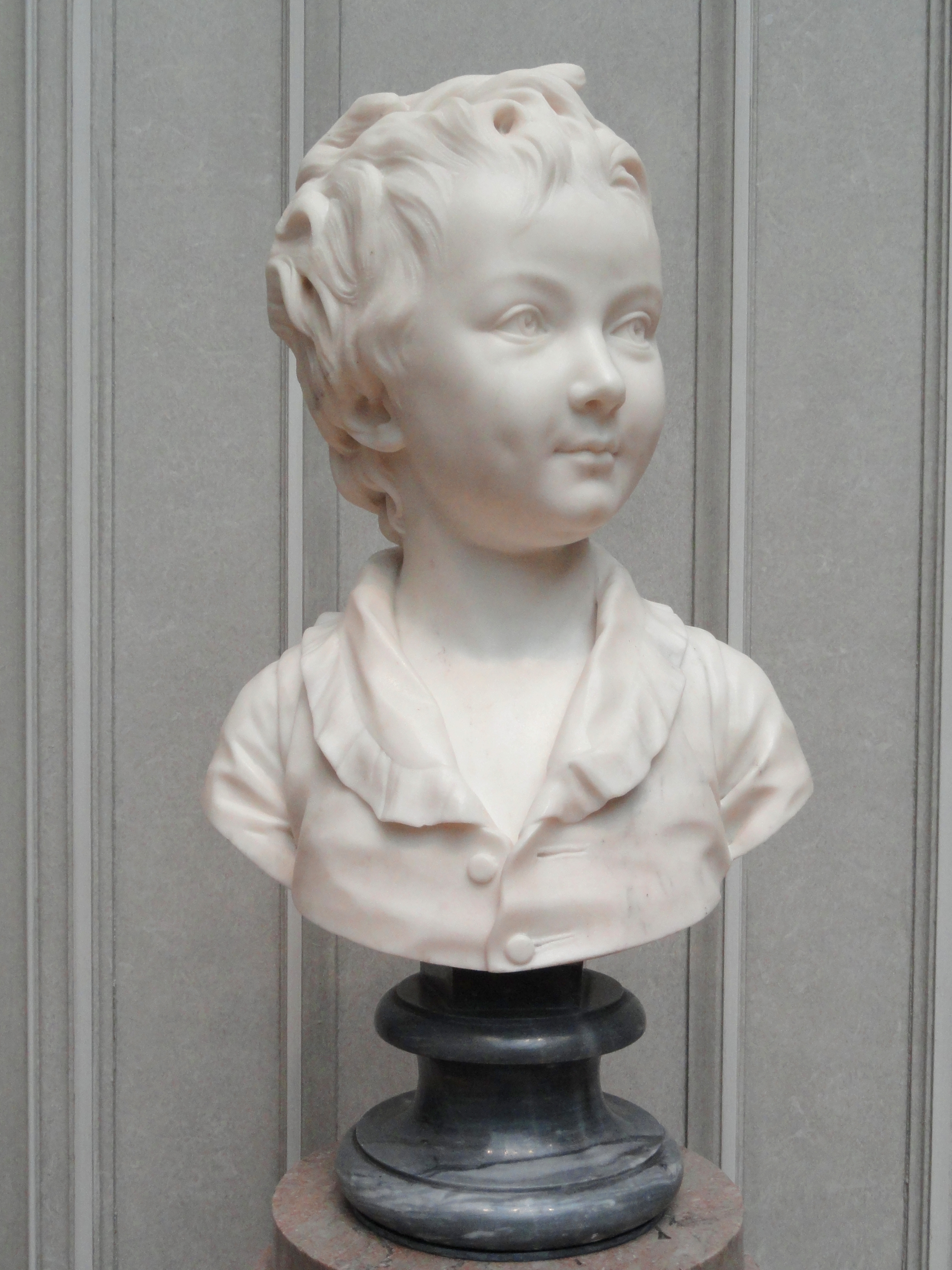 Alexandre Brongniart by Jean-Antoine Houdon, 1777, marble - National Gallery of Art, Washington, DC, USA. This work is in the public domain because the artist died more than 70 years ago.